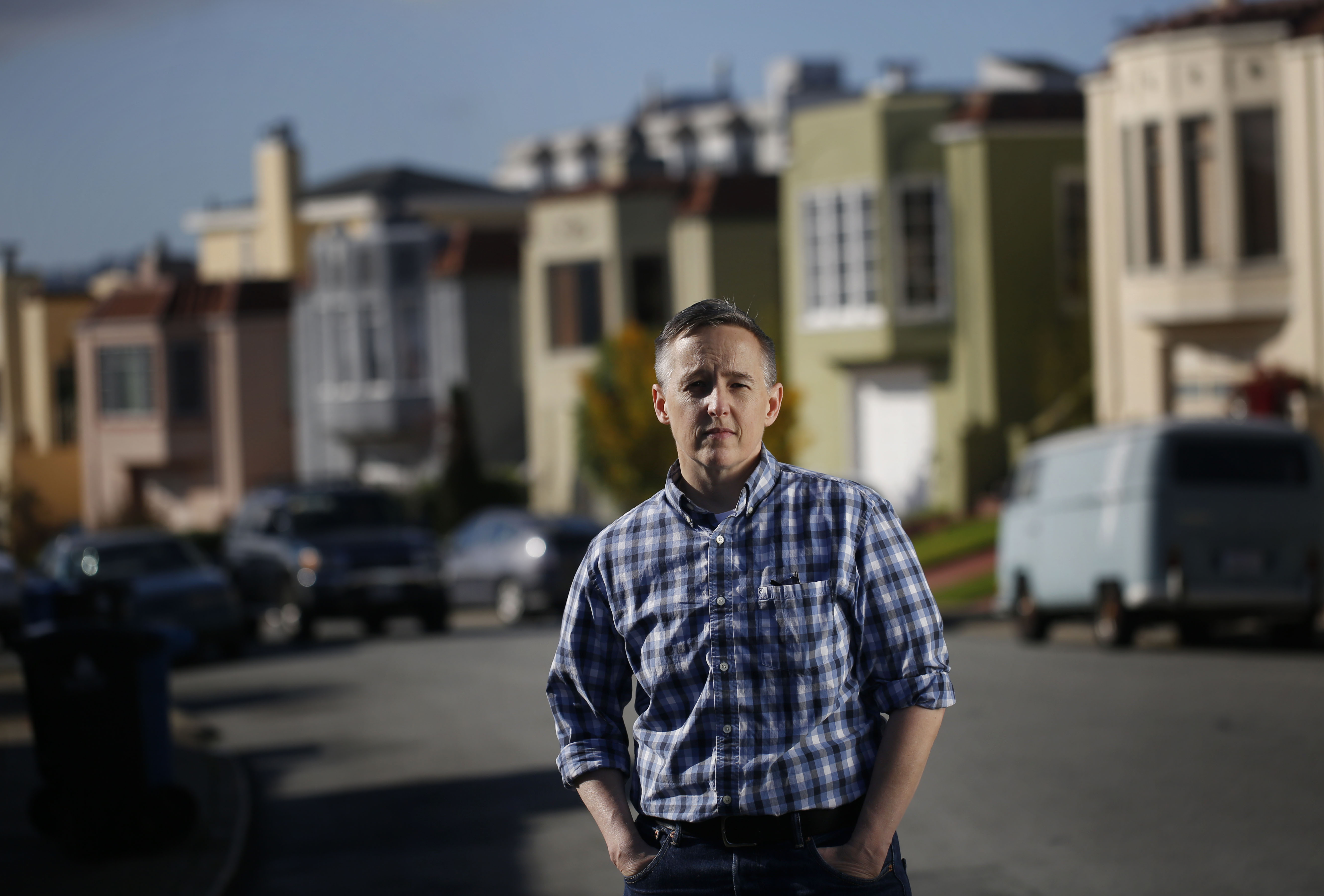 Filmmaker Jenni Olson — headshot from 2015 release of The Royal Road